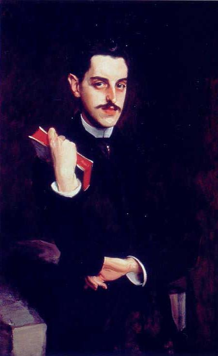 Portrait of George Washington Vanderbilt II